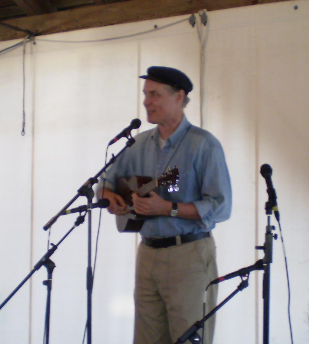 Folk musician/songwriter Jerry Bryant performing at the Sea Music Festival at Mystic Seaport Museum in Mystic, CT, USA on July 13, 2009.